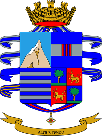 Coat of Arms of the 3° Alpini Regiment; Italian Army.